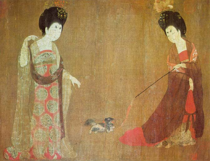 Beauties Wearing Flowers (46x180 cm)